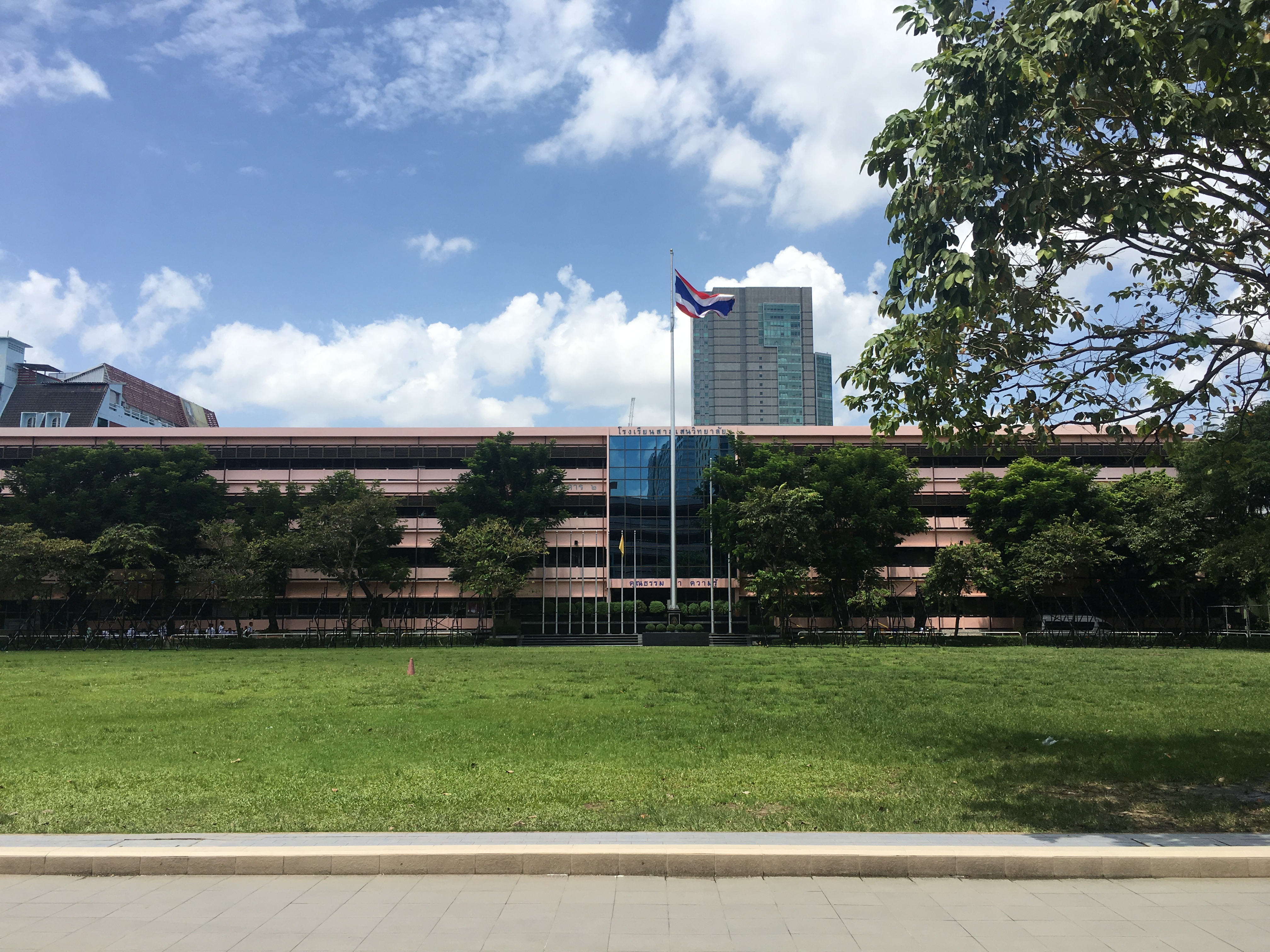 Building 2 and the school field (taken September 2018)